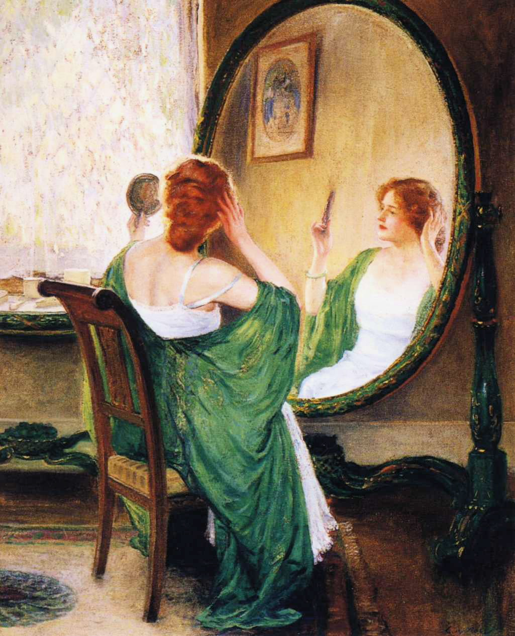 scan of painting; original is oil on canvas, 39.5 x 32 in